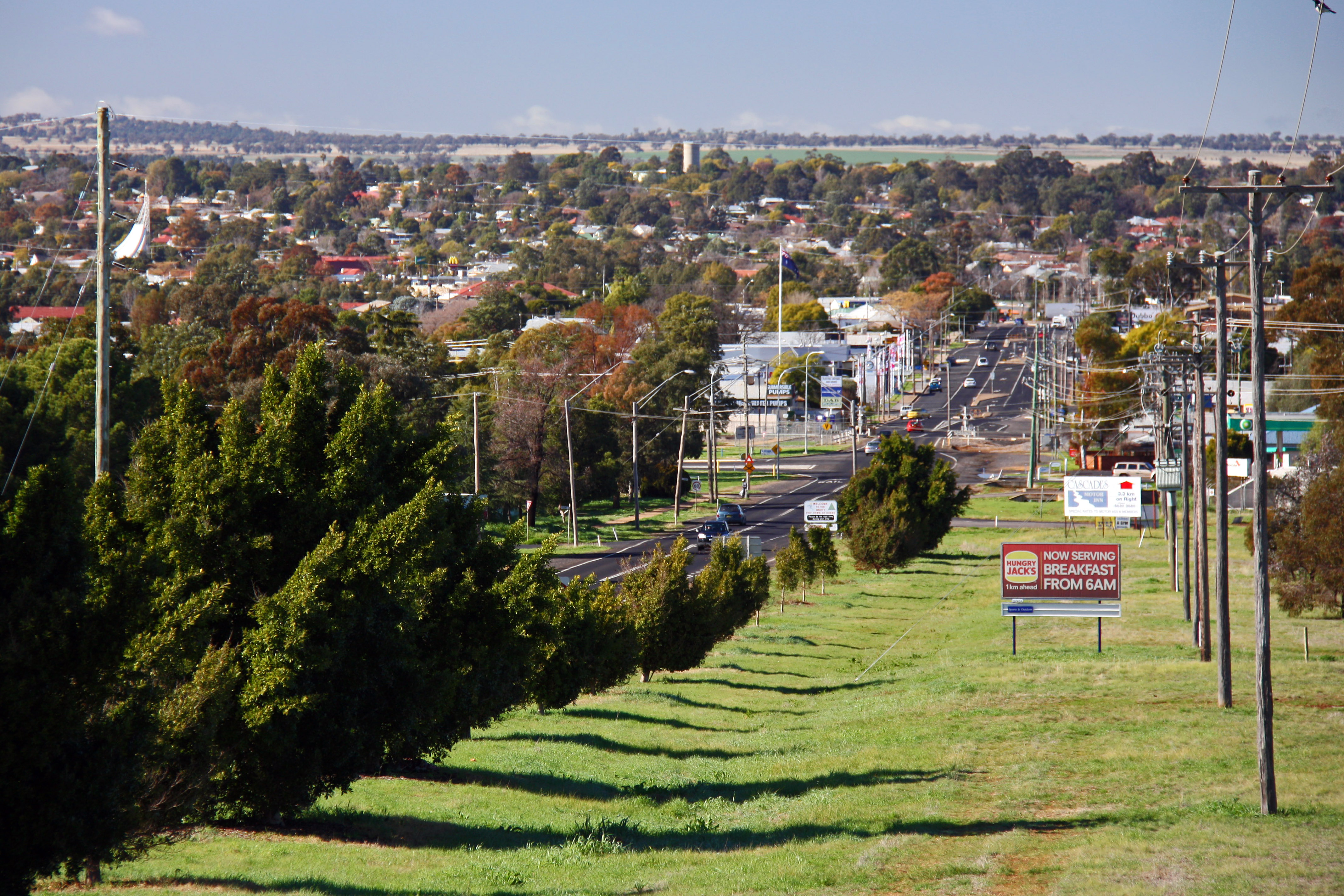 Overlooking Dubbo from the suburb of West Dubbo.